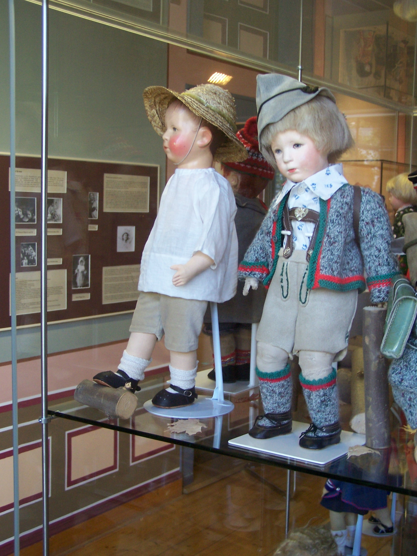 Dolls from the exhibition in Tenneberg castle.